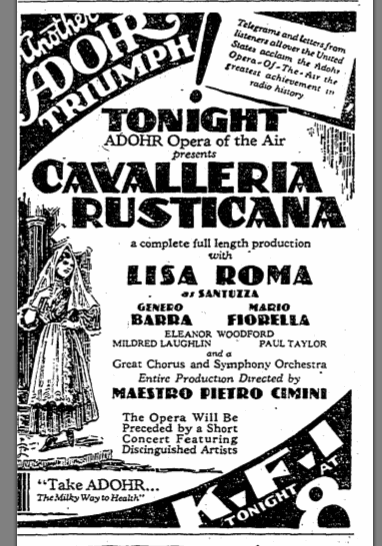 Advertisement published in the Los Angeles Times on May 6, 1930 demonstrating the kind of advertising used for radio shows in that era, and, in particular, the publicizing of operatic and classical music, as well as the sponsorship of the broadcast by a milk company. It shows a representation of singer Lisa Roma at that time and adds to the value of the article on her by demonstrating the attraction of her name to the public, which might otherwise not be notable to the modern reader.